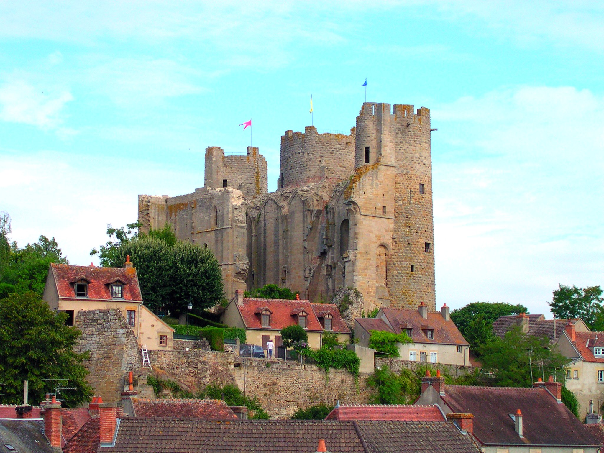 The ruins of the castle in Bourbon-l'Archambault, Allier, France